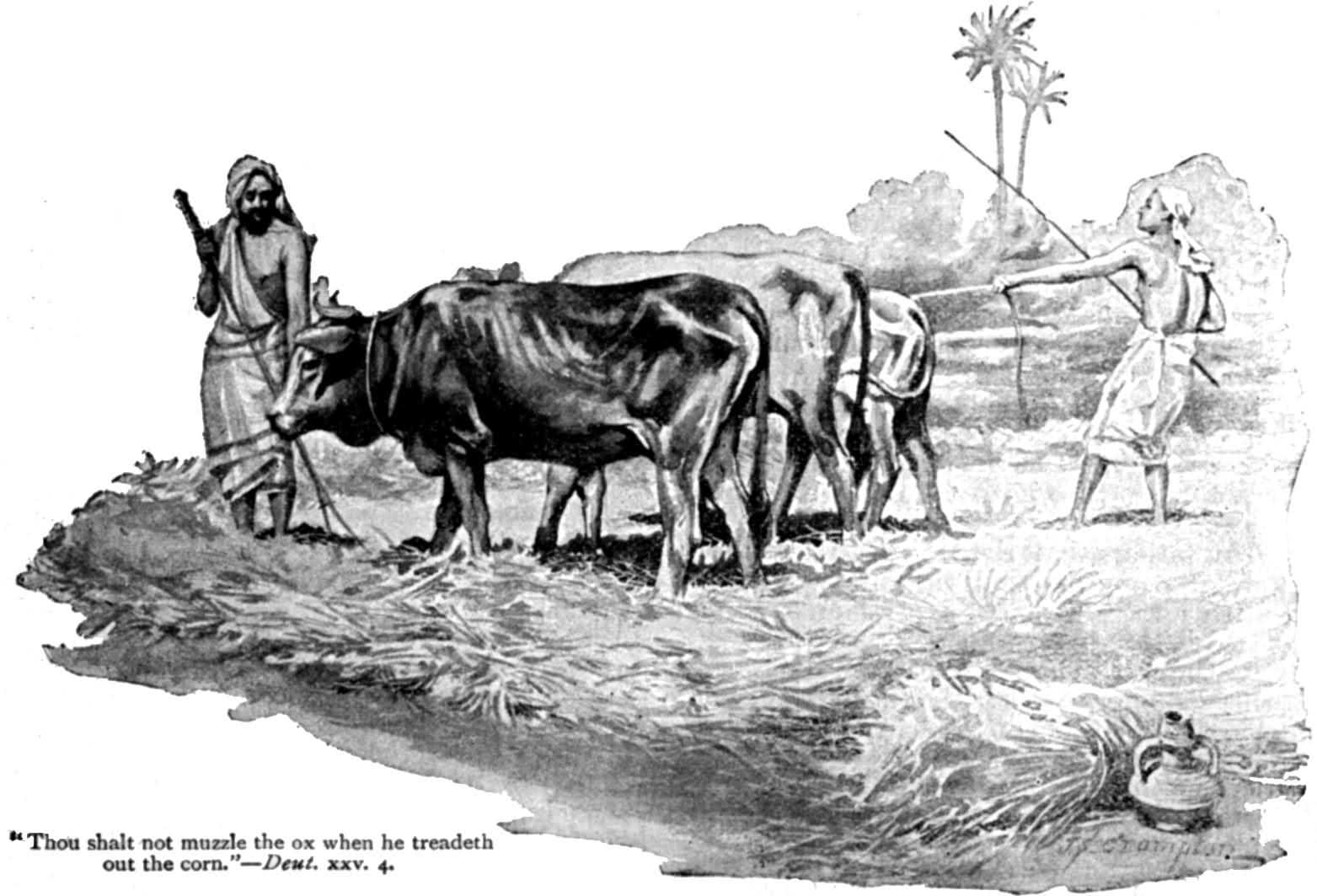 "Thou shalt not muzzle the ox when he treadeth out the corn." Deuteronomy 25:4. By James Shaw Crompton (1853-1916)